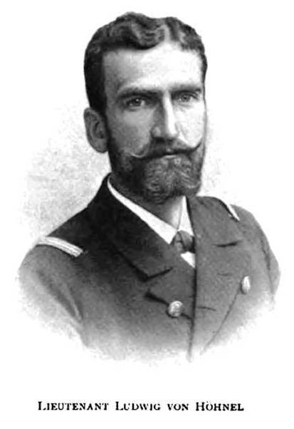 Lieutenant Ludwig von Hohnel in 1892